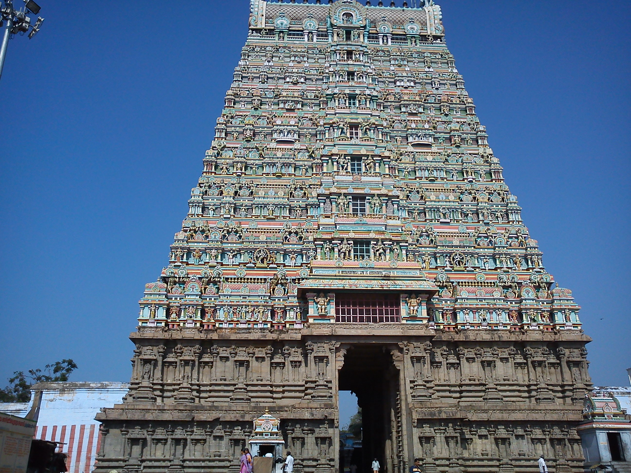 Including the picture of kasi vishwanathar temple rajagopuram